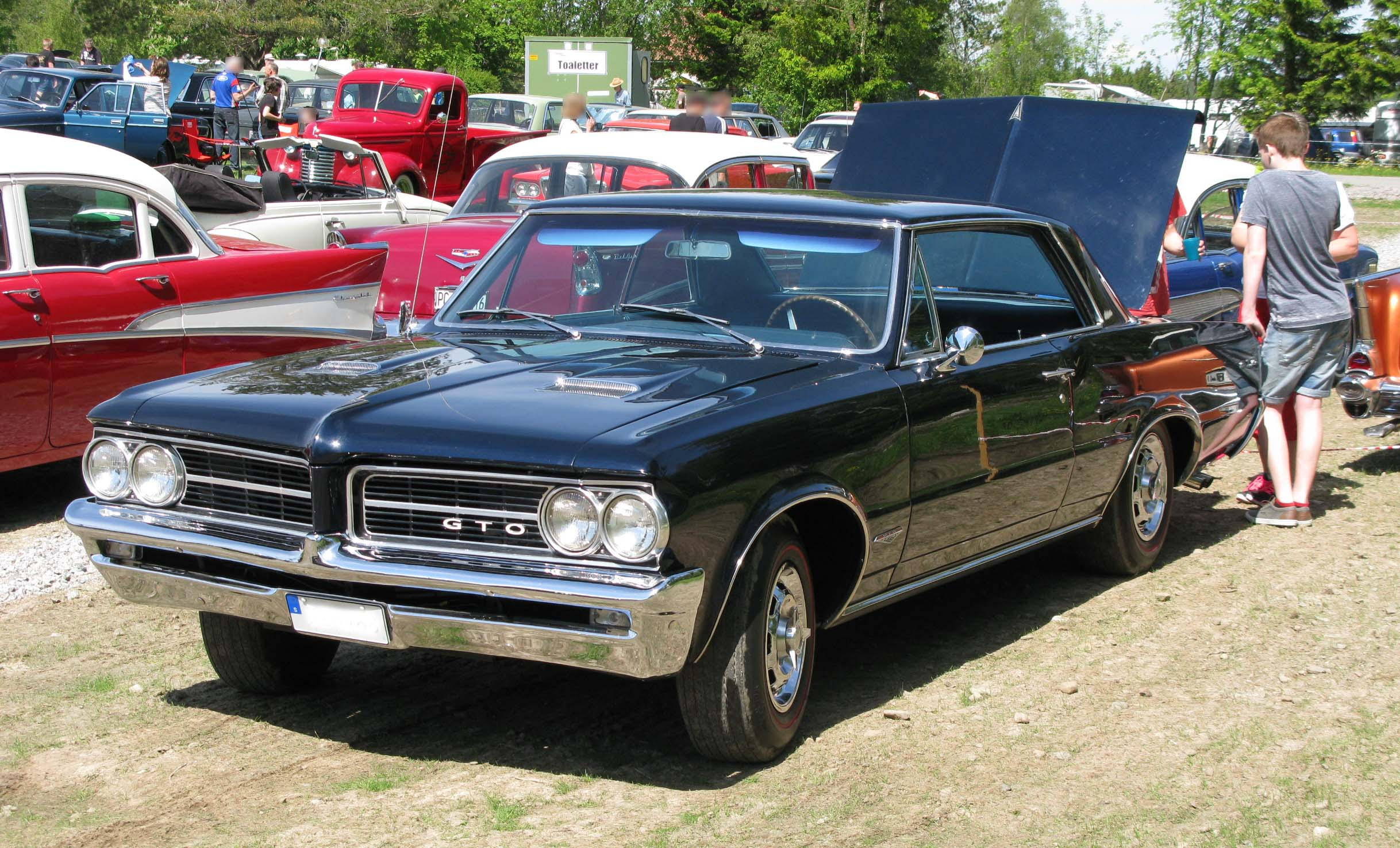 1964 Pontiac GTO Event: Ånnaboda Classic Motor 2015